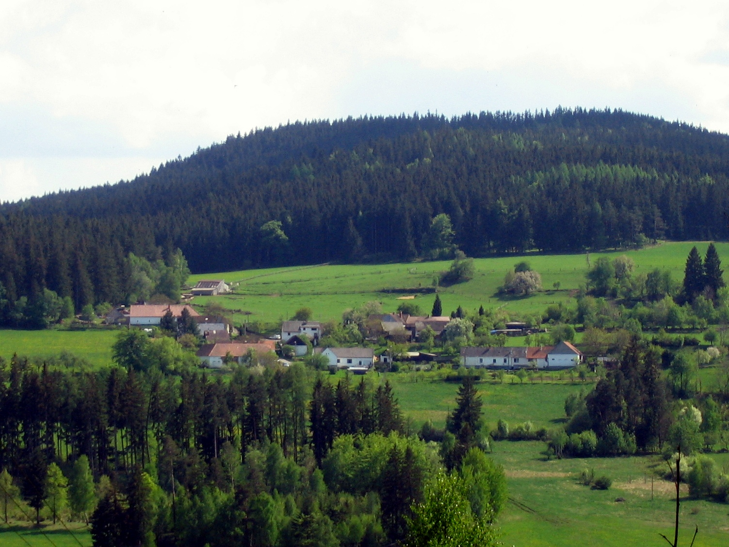 Czech village Lhota pod Kůstrým and hill Kůstrý (836 m), Strakonice District, Czech Republic